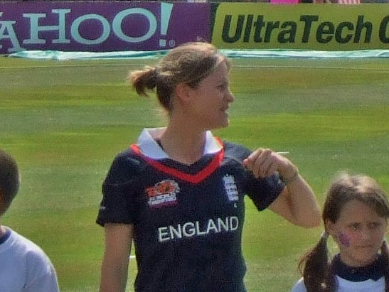 English cricket Lydia Greenway fielding during the 2009 Women's World Twenty20 in Taunton